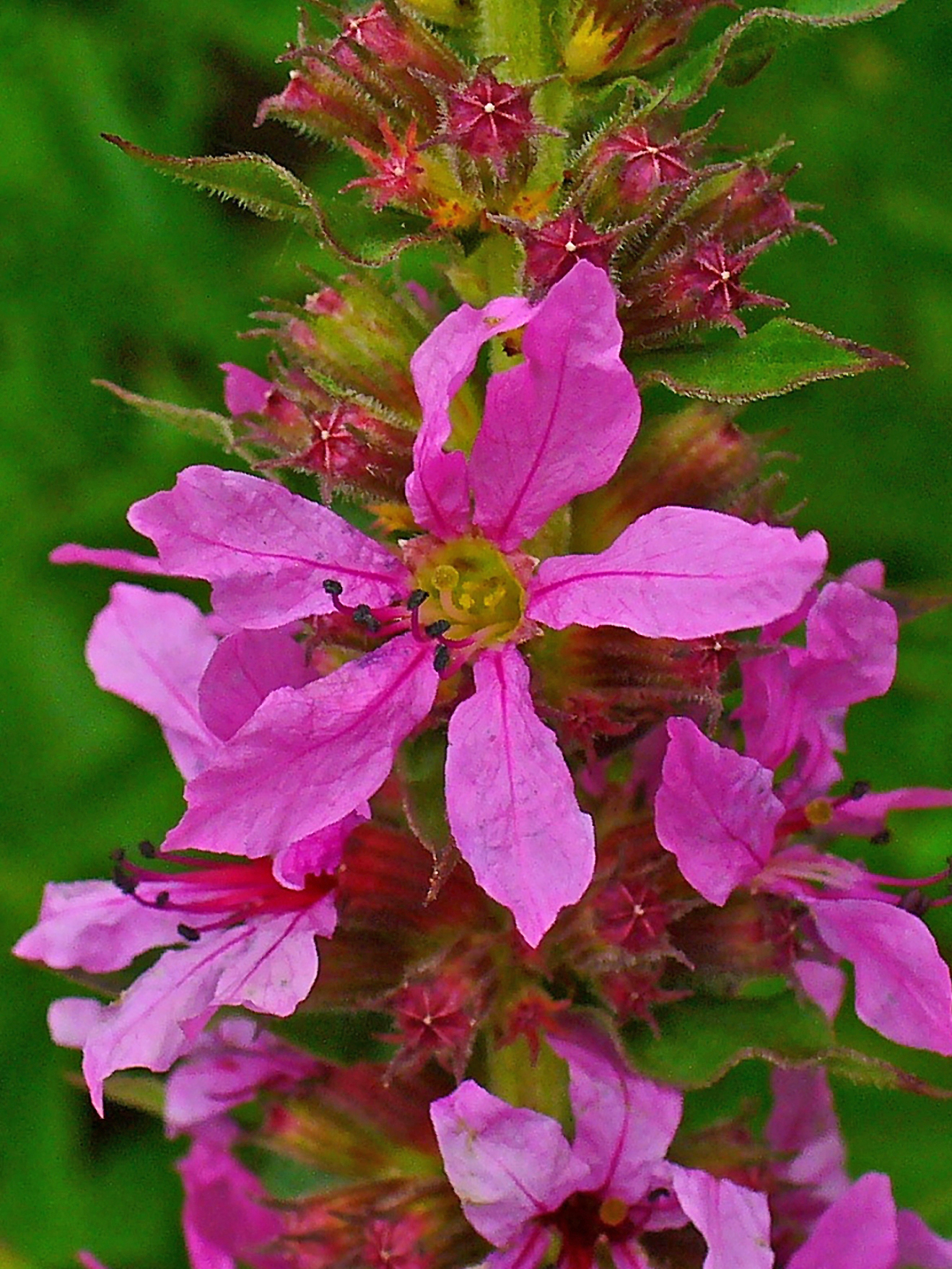 Lythrum salicaria, Lyhraceae, Purple Loosestrife, flower. The plant is used in homeopathy as remedy: Lythrum salicaria (Lythr-s.)